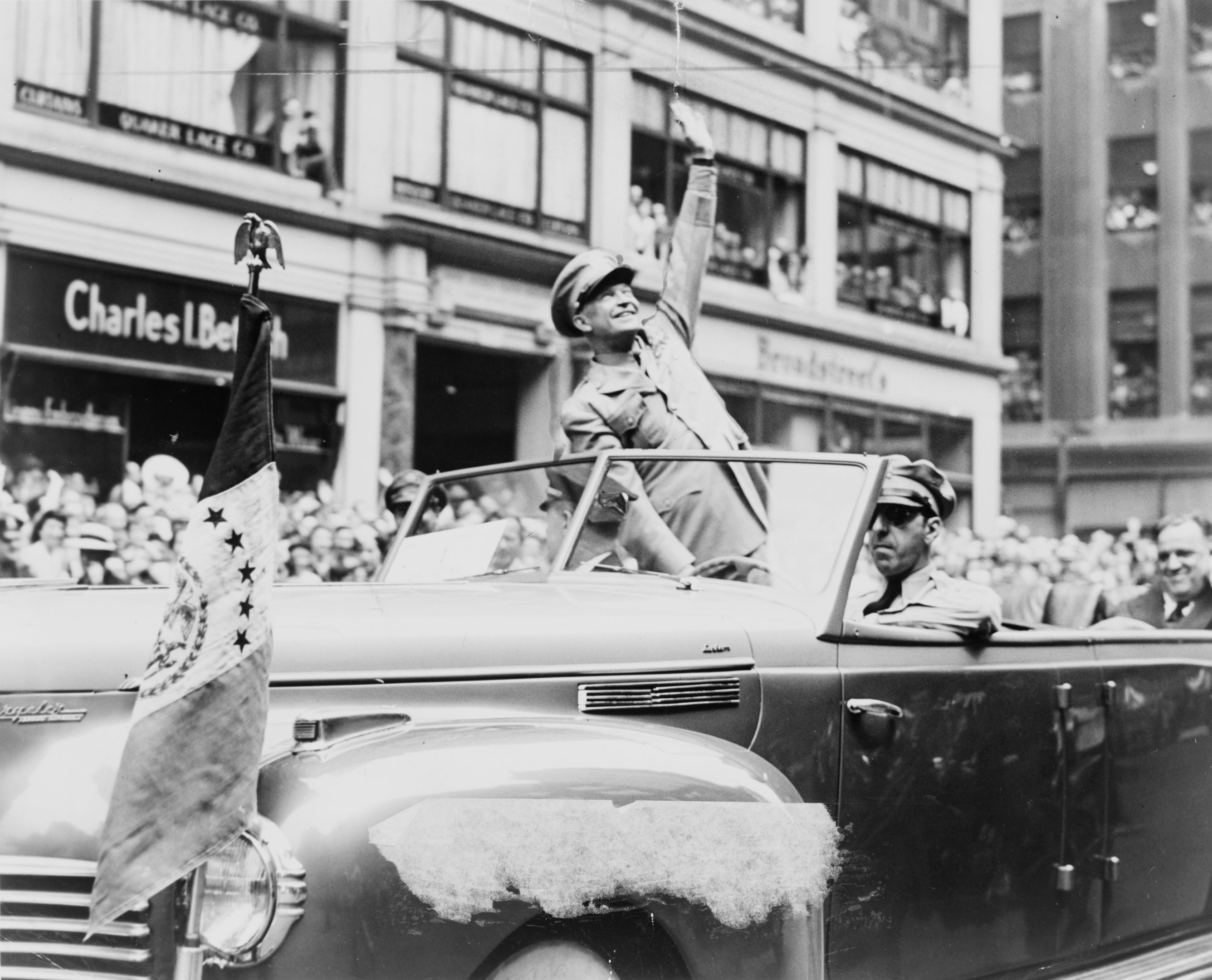 General Dwight D. Eisenhower waves from automobile in parade to people in buildings above / World Telegram photo by Fred Palumbo.